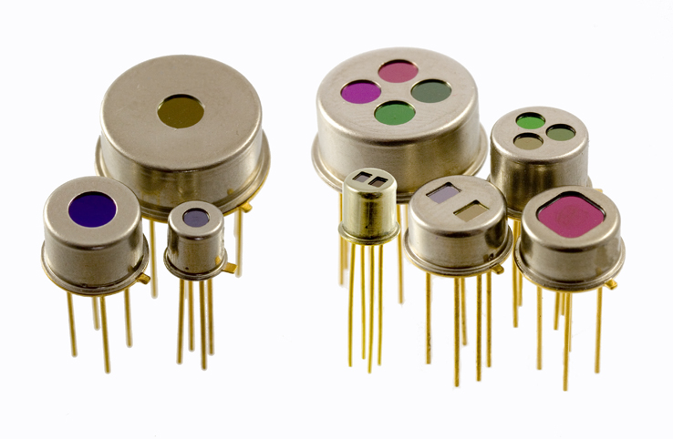 Pyroelectric infrared detectors from the company InfraTec GmbH (Dresden, Germany). From left: LIE-312f, LFP-3144C, LIE-216, LMM-244, LIM-102, LIM-272, LIM-253 und LME-336